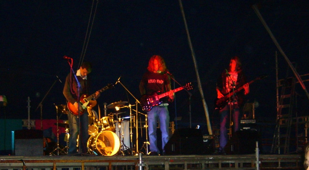 Factor 17, Norwegian rock band.